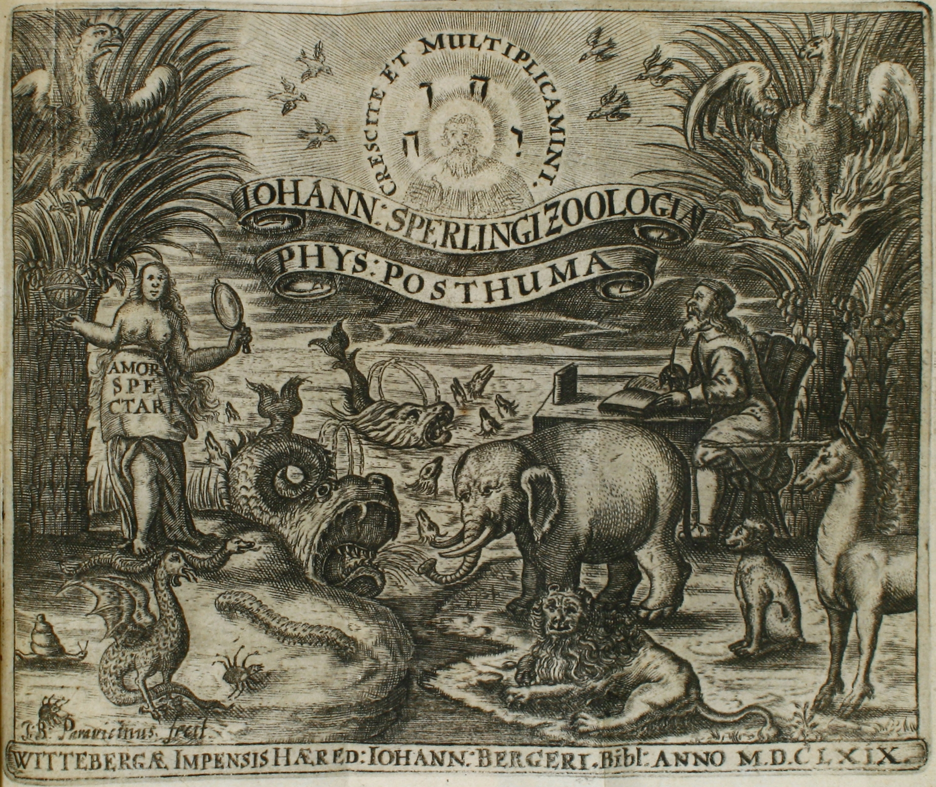 Zoologia physica. Recensuit G. C. Kirchmajer. Addiditque Dißertationes de Basilisco, Unicornu, Phoenice, Behemoth, Leviathan, Dracone (etc.). Editio altera. 2 Tle. in 1 Bd. Wittenberg, Berger Erben, 1669